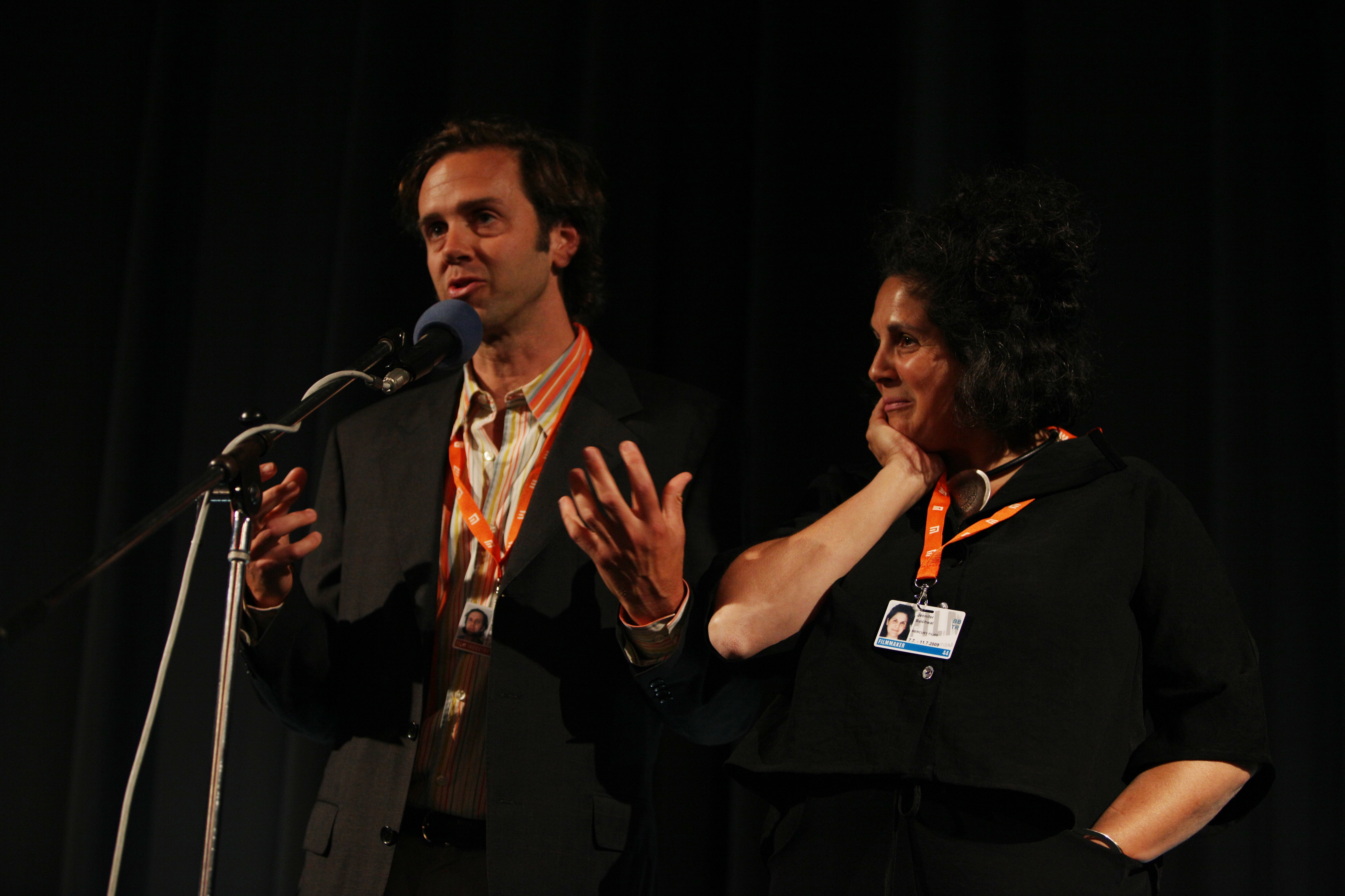 Producer Nick de Pencier and director Jennifer Baichwal introduce their film Act of God at 44th Karlovy Vary International Film Festival